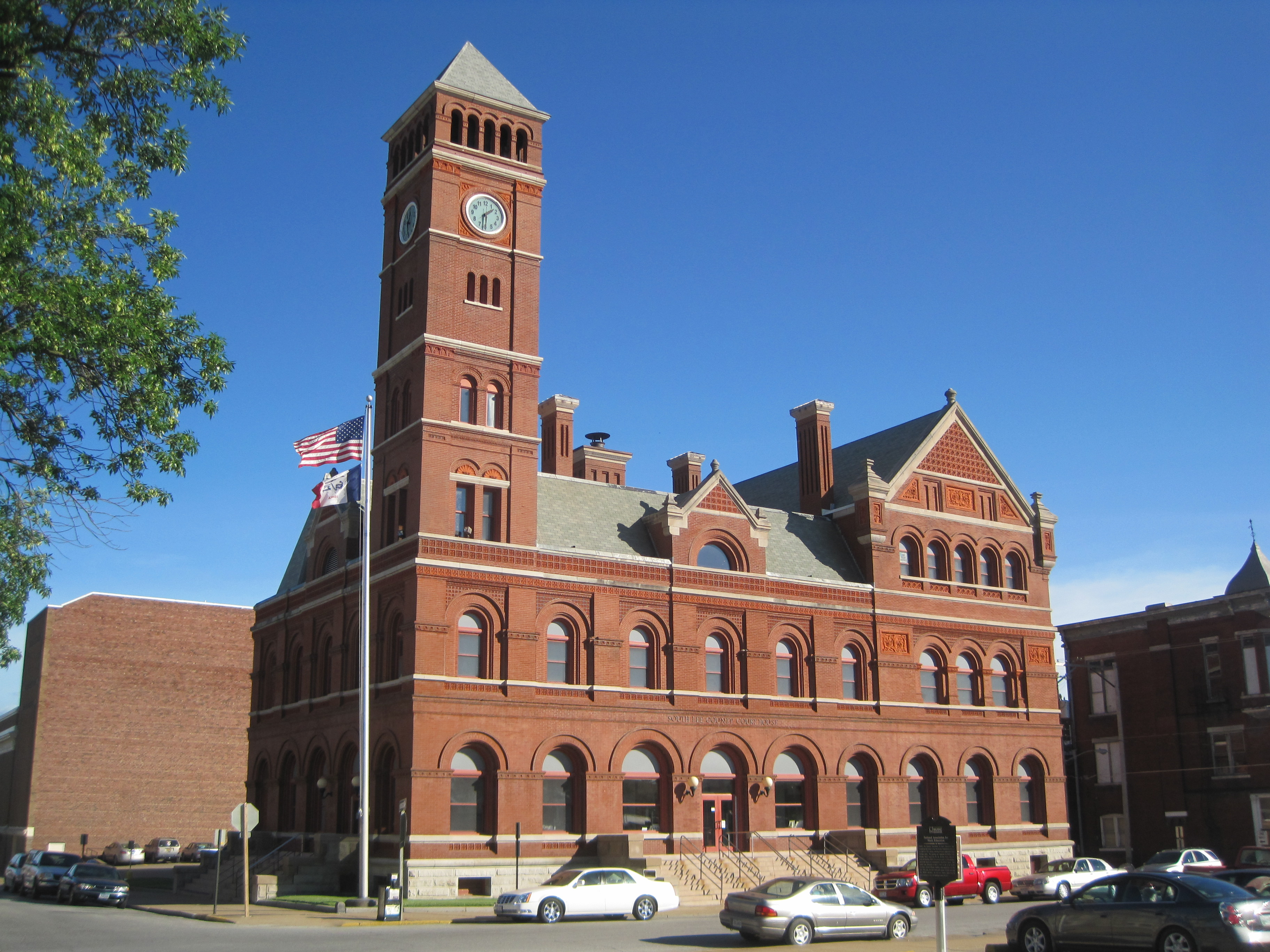 Lee County, Iowa, United States has two courthouses. This one is in Keokuk, and the other is in Fort Madison.